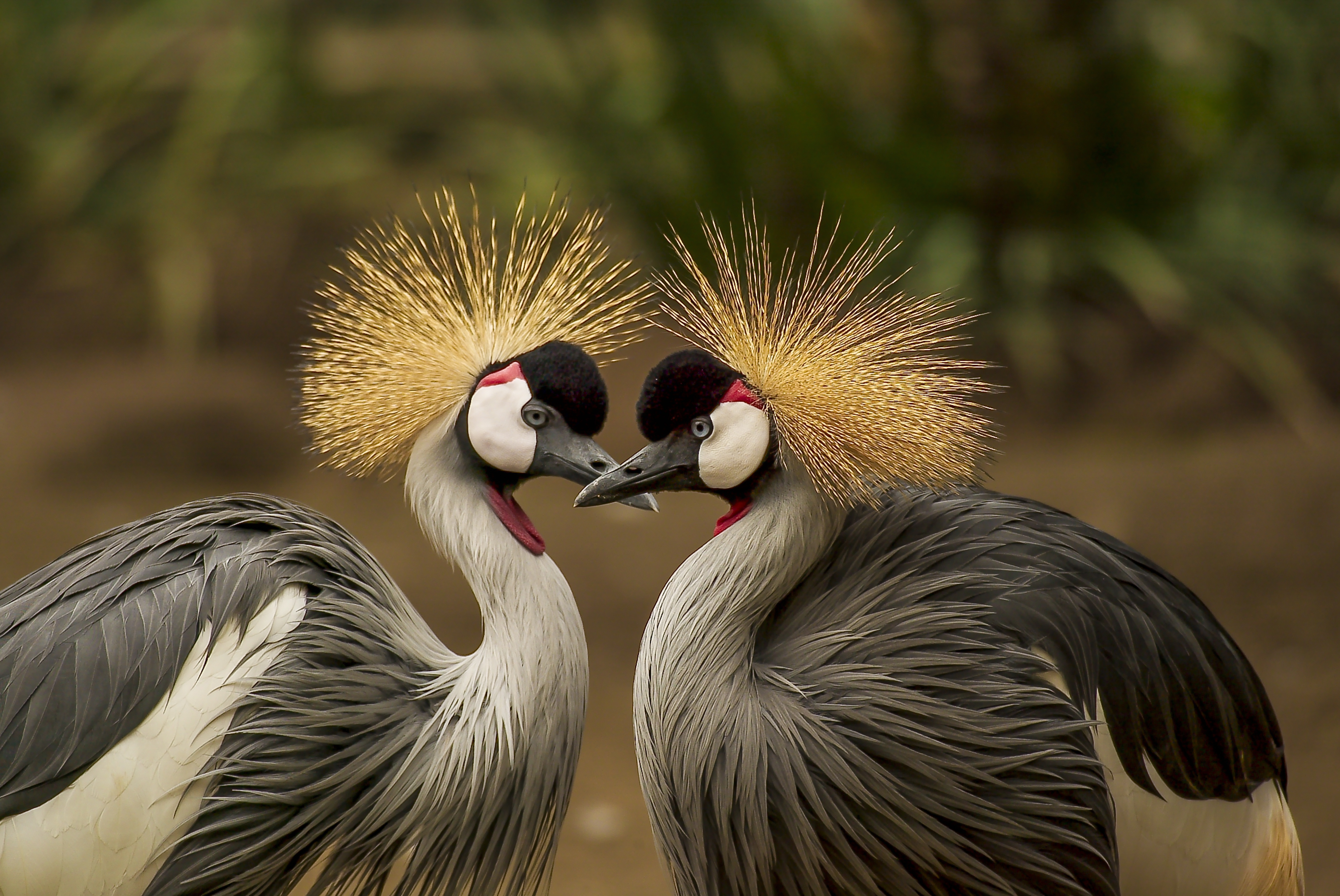 Grey-crowned-crane; photography by Frank Winkler